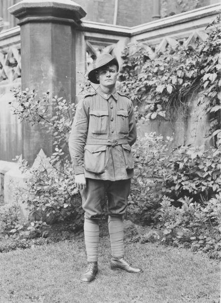 Informal portrait of 2389 Corporal Joergen Cristian Jensen VC, 50th Battalion (late 10th Battalion). He was awarded the Victoria Cross as a Private for most conspicuous bravery and initiative when, with five comrades, he attacked a barricade behind which were about forty five of the enemy and a machine gun on 2 April 1917 at Noreuil, France. Note the four service stripes on the right sleeve.